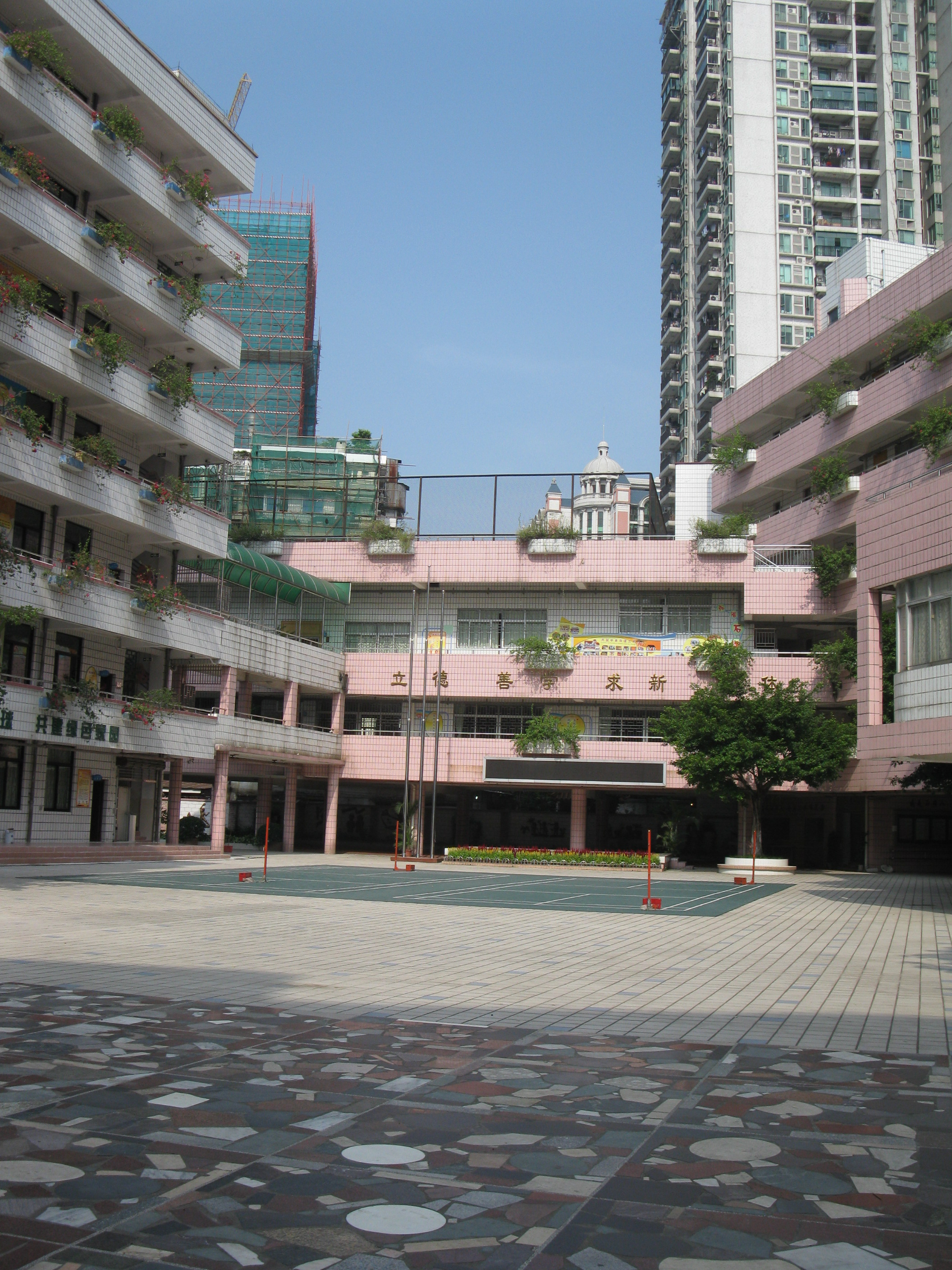 Shipai Primary School, Shipai Village, Guangzhou, China